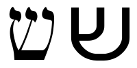 hebrew letter shin